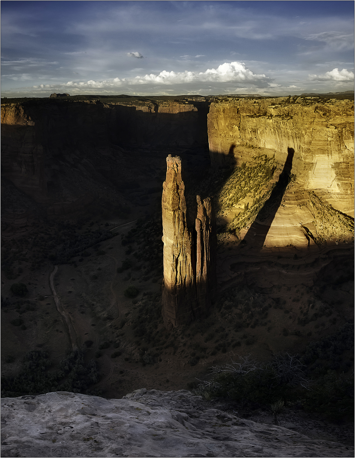 USA, Arizona, Canyon De Chelly, SpiderRock